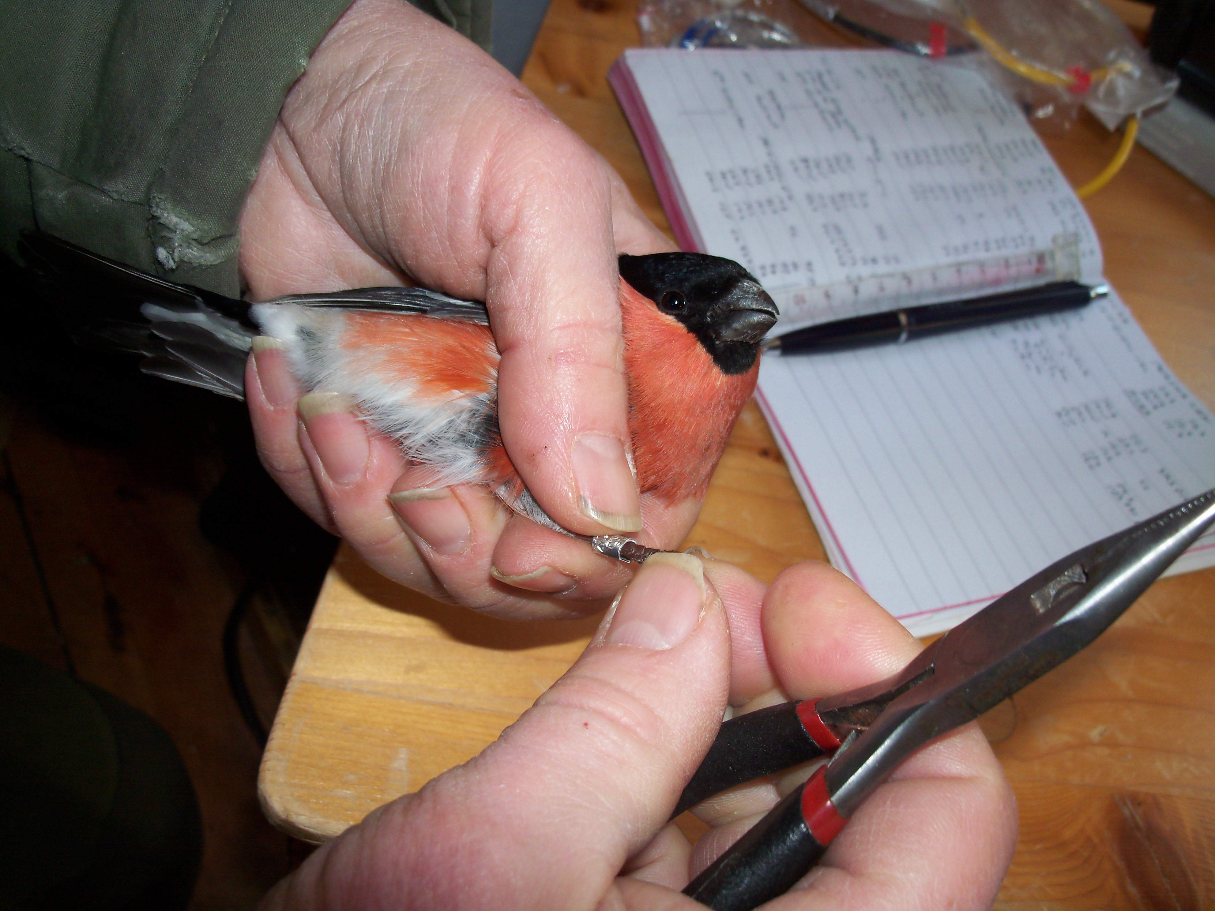 A Eurasian Bullfinch (Pyrrhula pyrrhula) ringed by a private marker in Lina Nature Reserve outside of Södertälje in Stockholm County in Sweden, January 2012.